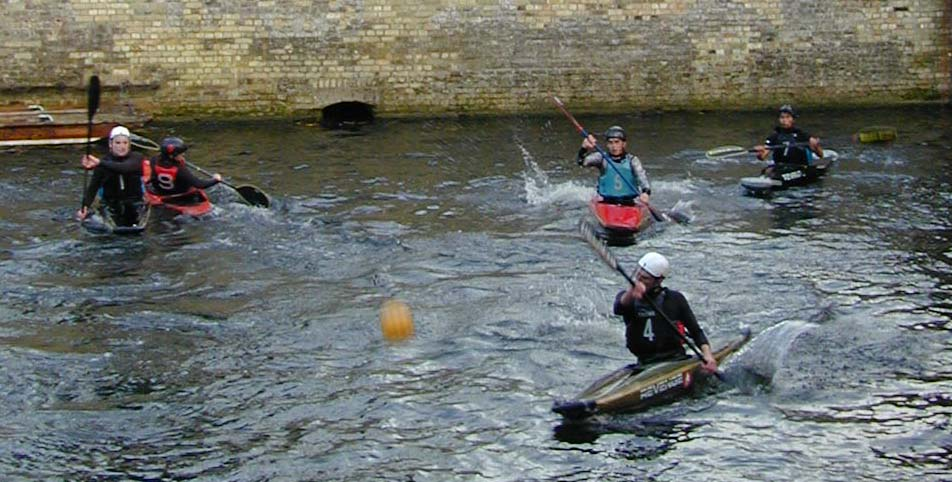 A poor image of canoe polo practice on the River Cam in... Cambridge